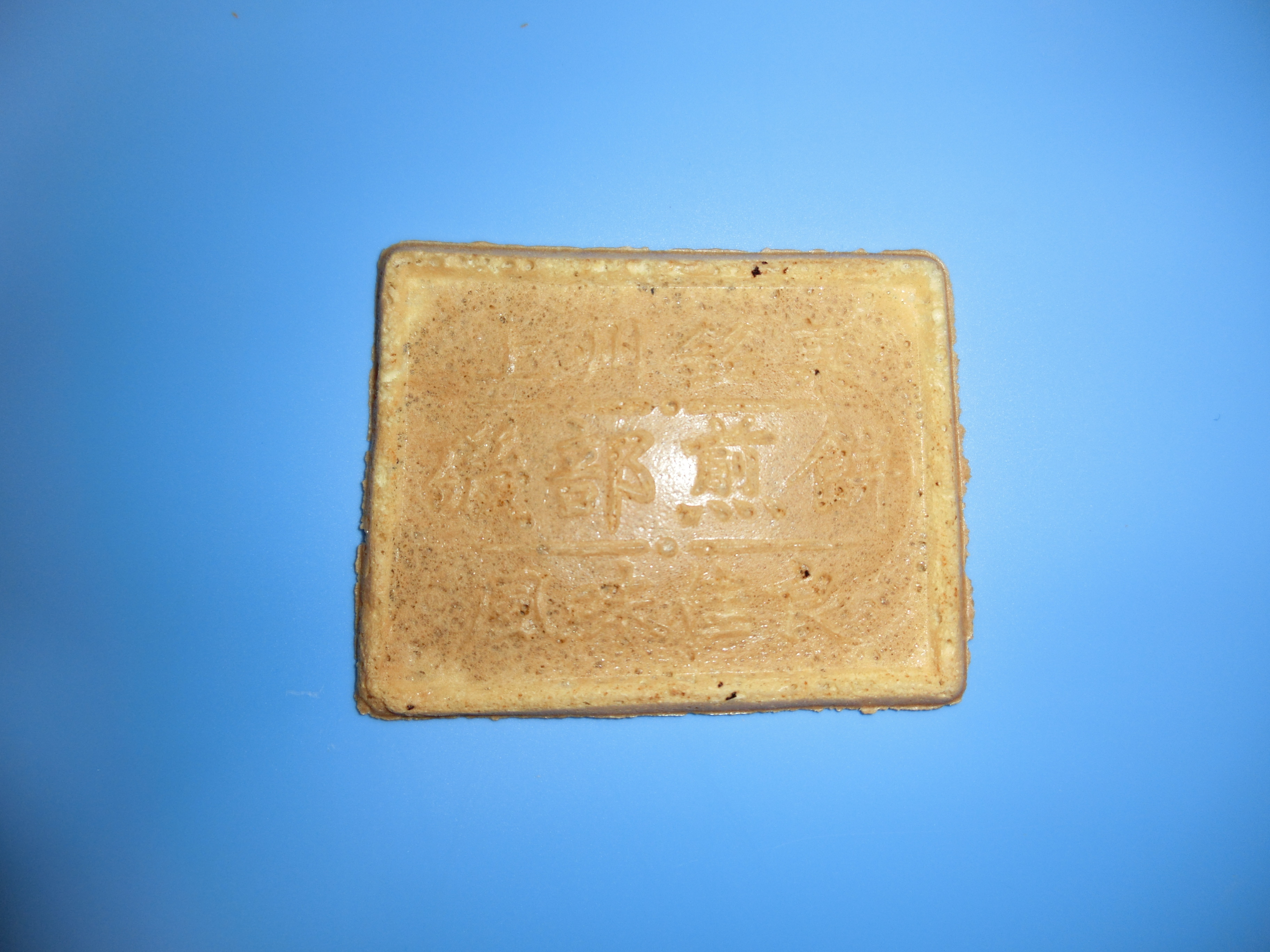 Isobe Senbei